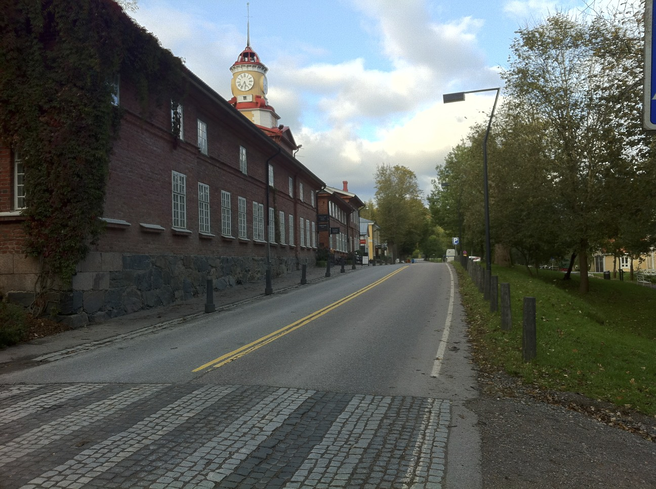 Regional road 104 in Fiskars, Raseborg, Finland.